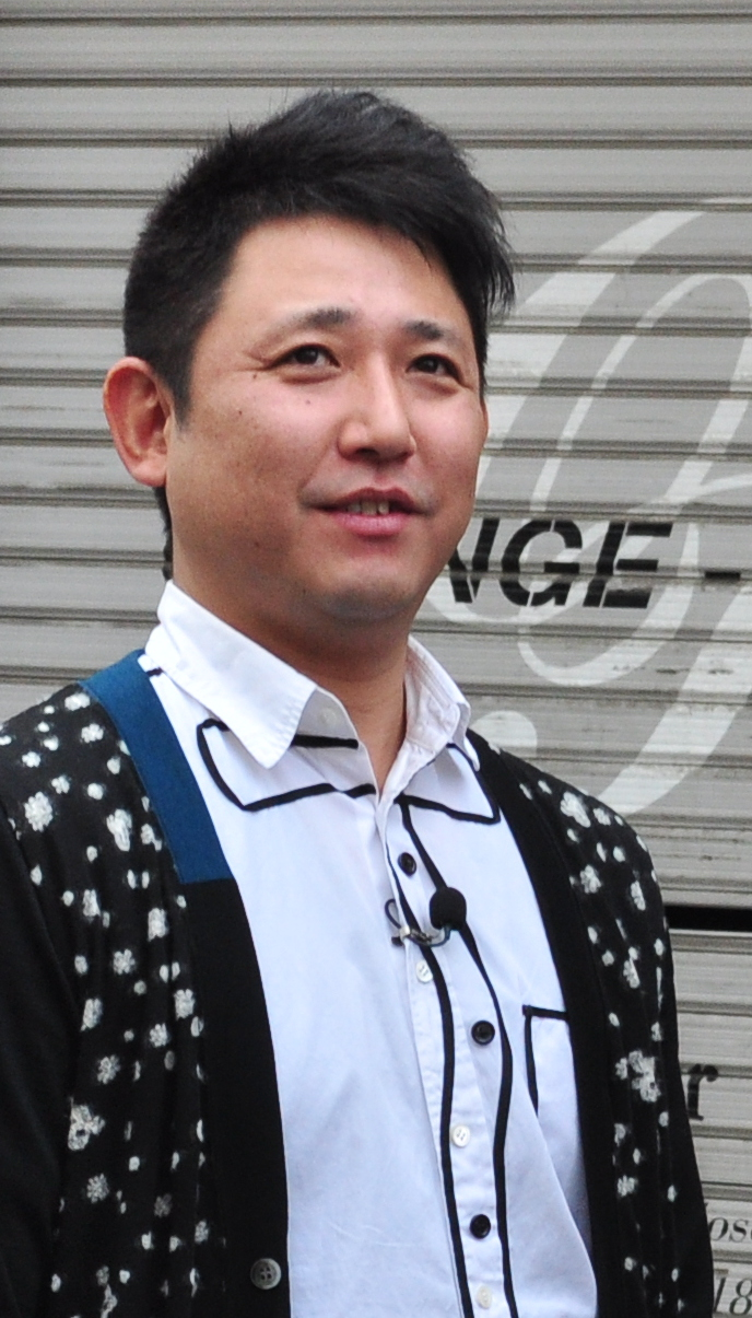 Daisuke Matsuda (松田大輔 Matsuda Daisuke), comedian.